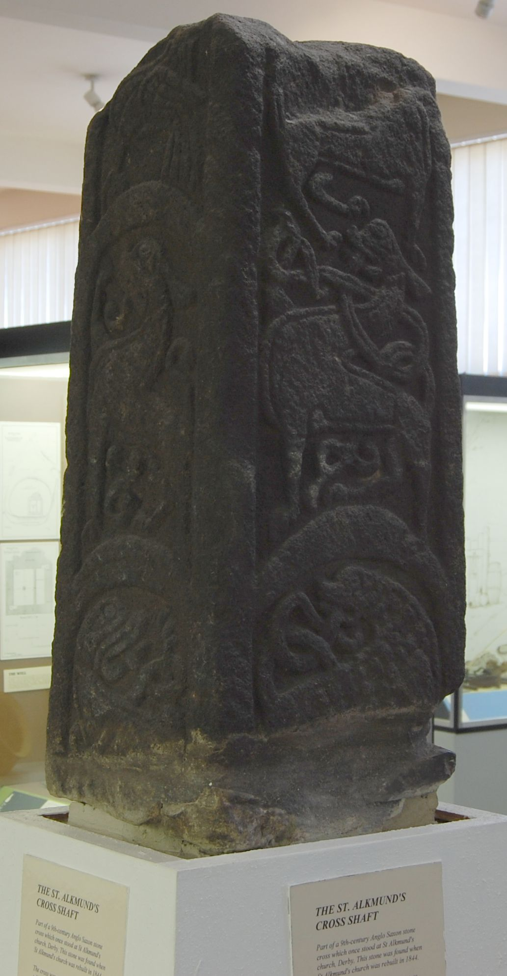 The St. Alkmund's cross shaft, at Derby Museum and Art Gallery. The museum's exhibit label says "Part of 9th-century Anglo Saxon stone cross which once stood at St. Alkmund's church, Derby. This stone was found when St Alkmund's church was rebuilt in 1844. The cross was originally about 4 metres tall. There are birds and beasts carved on all four sides.". Taken during GLAMDerby Backstage Pass.